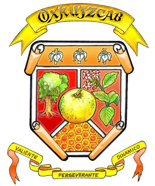 shield of the city of Oxkutzcab, Yucatán